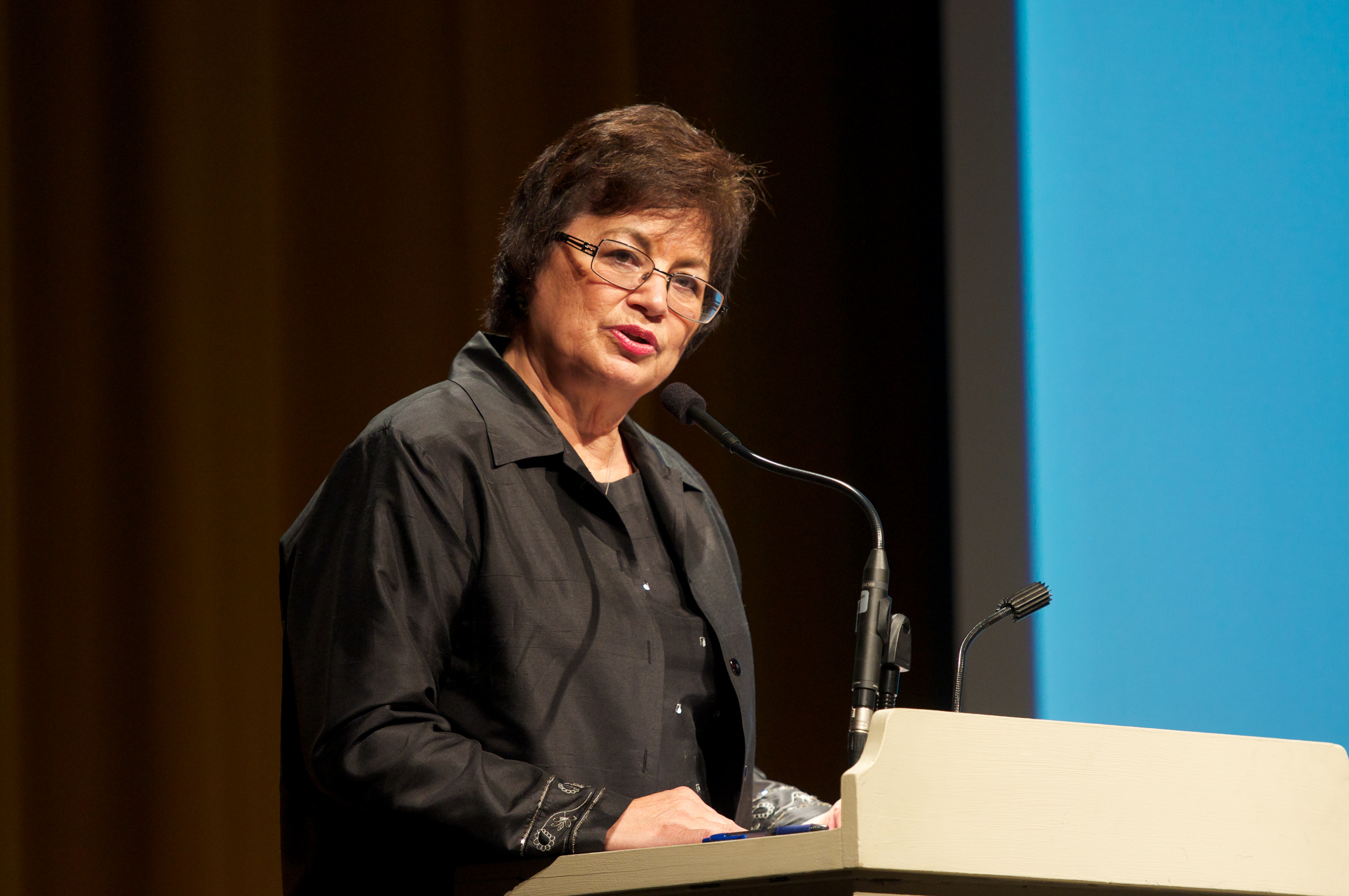 Delores Pigsley, Chairperson of the Confederated Tribes of Siletz Indians, at the Indigenous Leadership Awards in 2011.